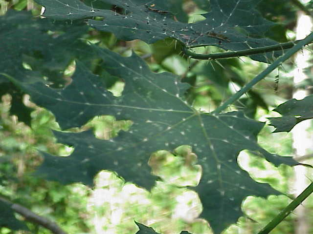 Species: Cnidoscolous souzae Family: Euphorbiaceae Image No. 2